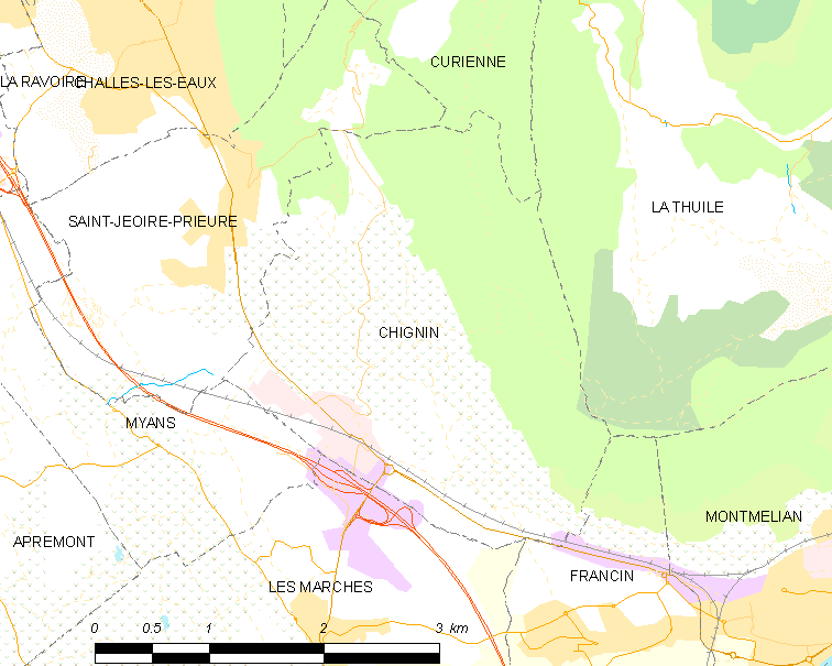 Map of French municipality